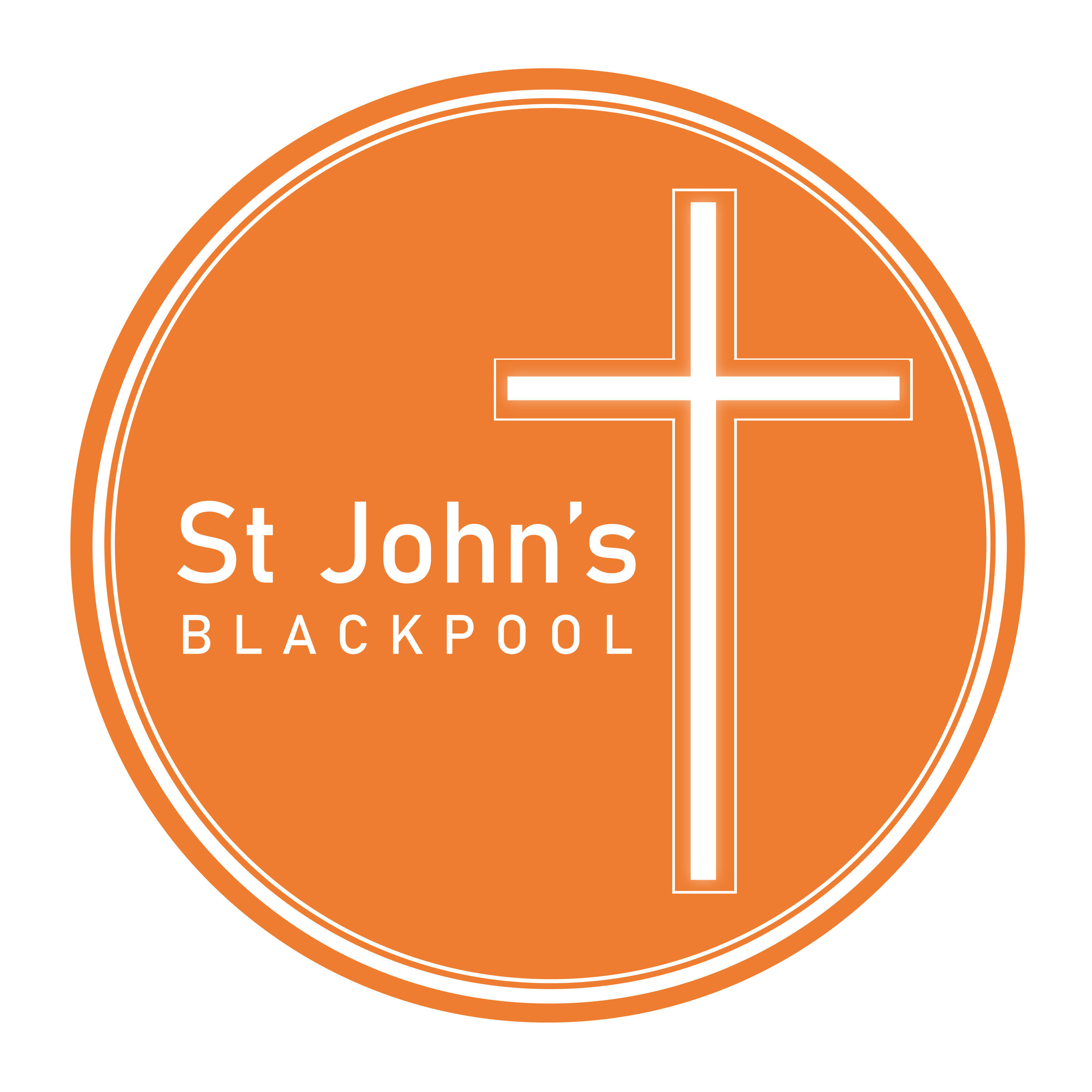 St John's Blackpool official logo